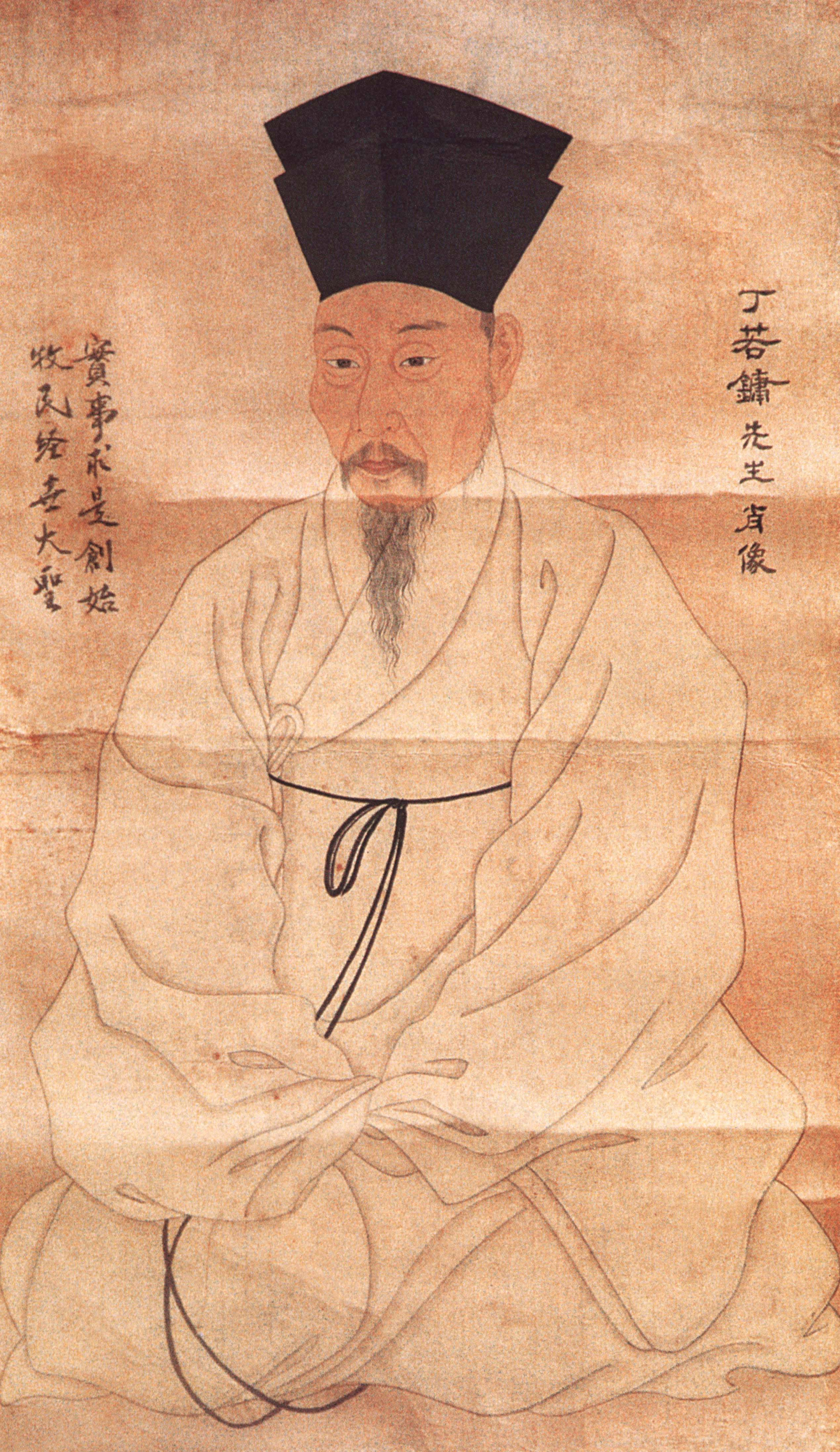 Portrait of Jeong Yak-yong